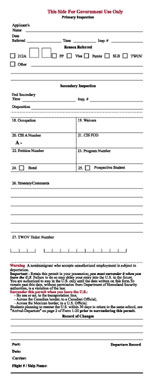 Arrival-Departure Record form - back side